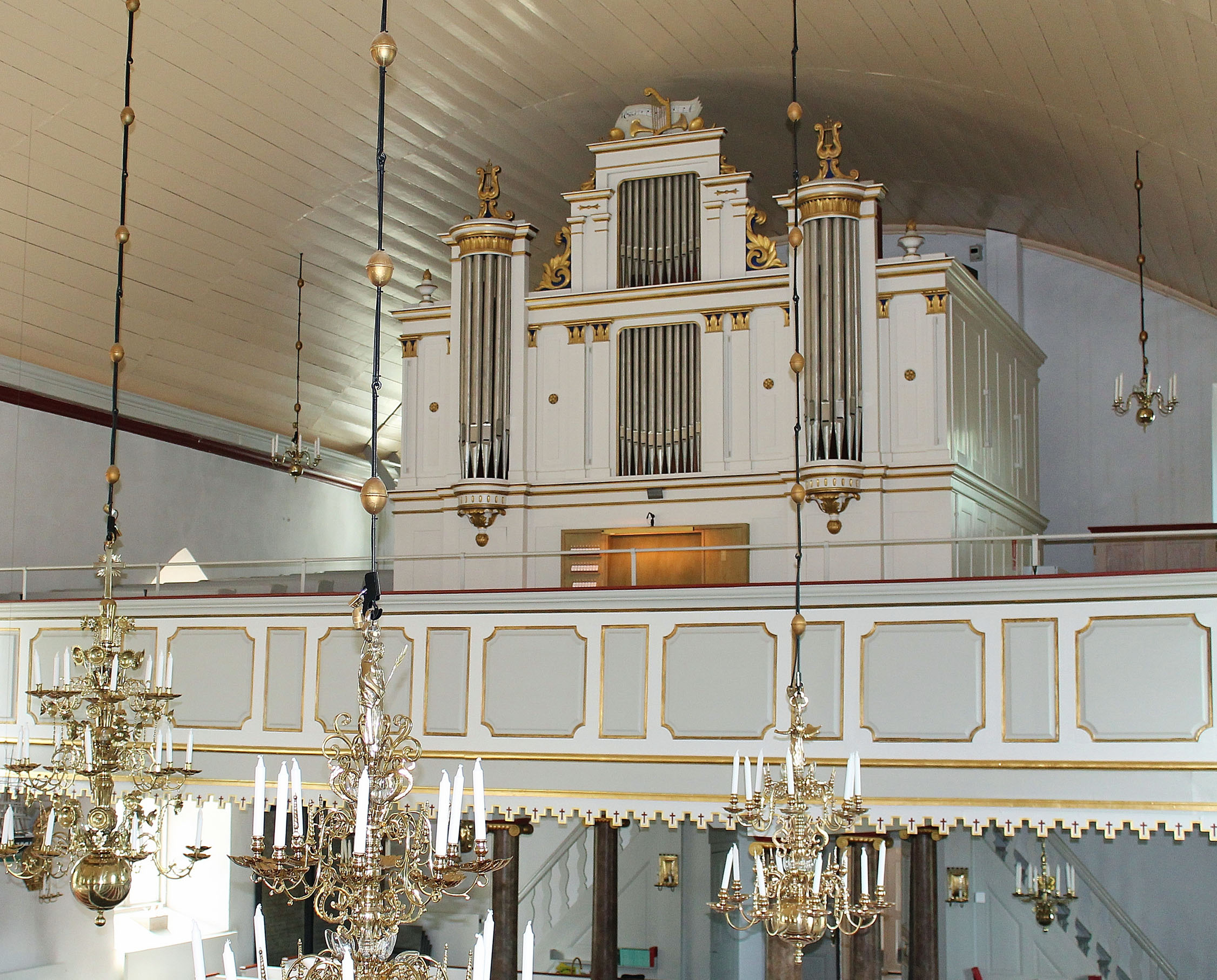 Torslunda Church.Organ.